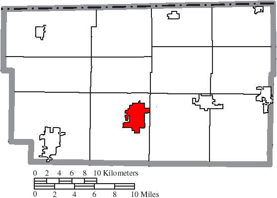 Map of the municipal and township boundaries of Fulton County, Ohio, United States, as of the 2000 census, with the location of the city of Wauseon highlighted. Township borders are shown only in unincorporated areas in order to differentiate incorporated and unincorporated areas more clearly.